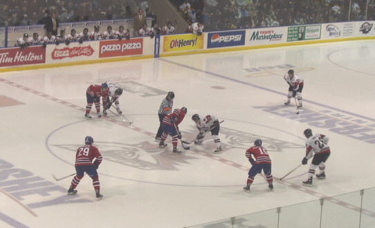 self-taken photo: Mississauga IceDogs face off at home in overtime, February 10, 2006